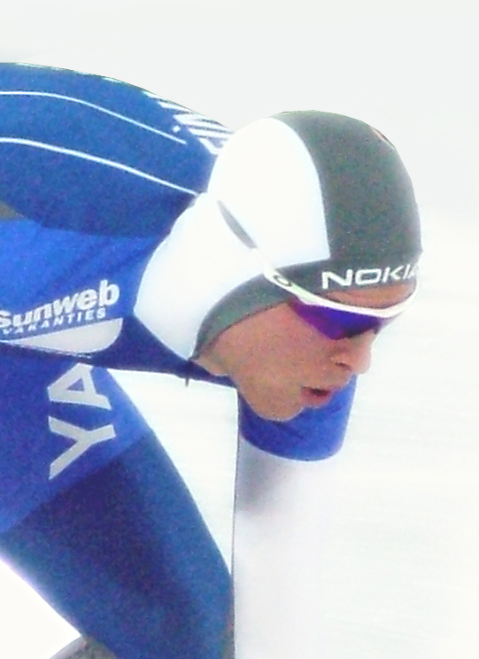 1000 meters. ISU World Cup Hamar, January 27th 2008